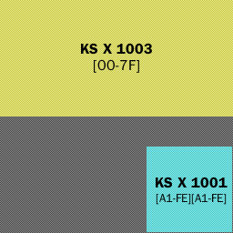 Layout of EUC-KR.